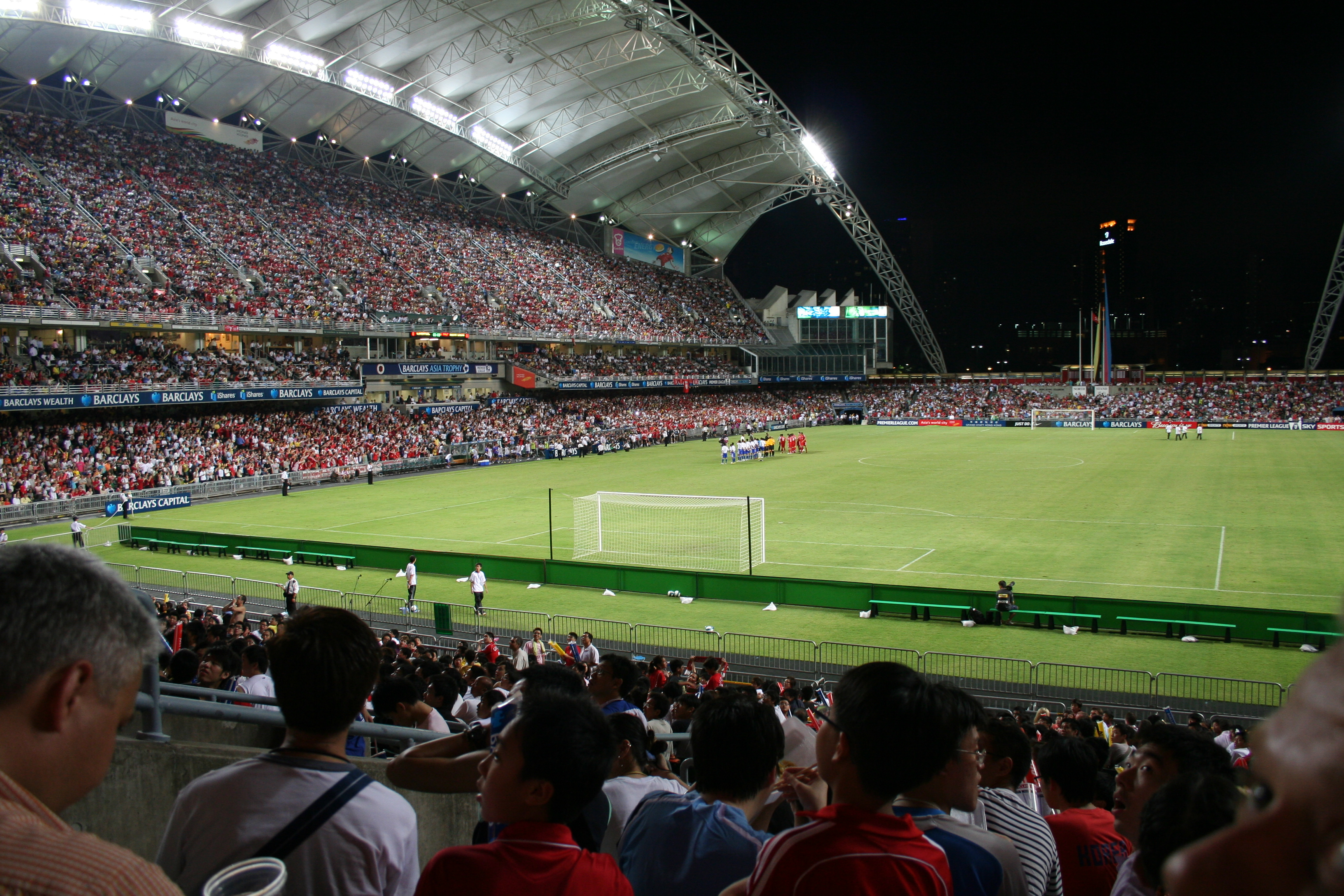 Barclays Asia Trophy 2007 中文（香港）: 2007年巴克萊亞洲錦標賽